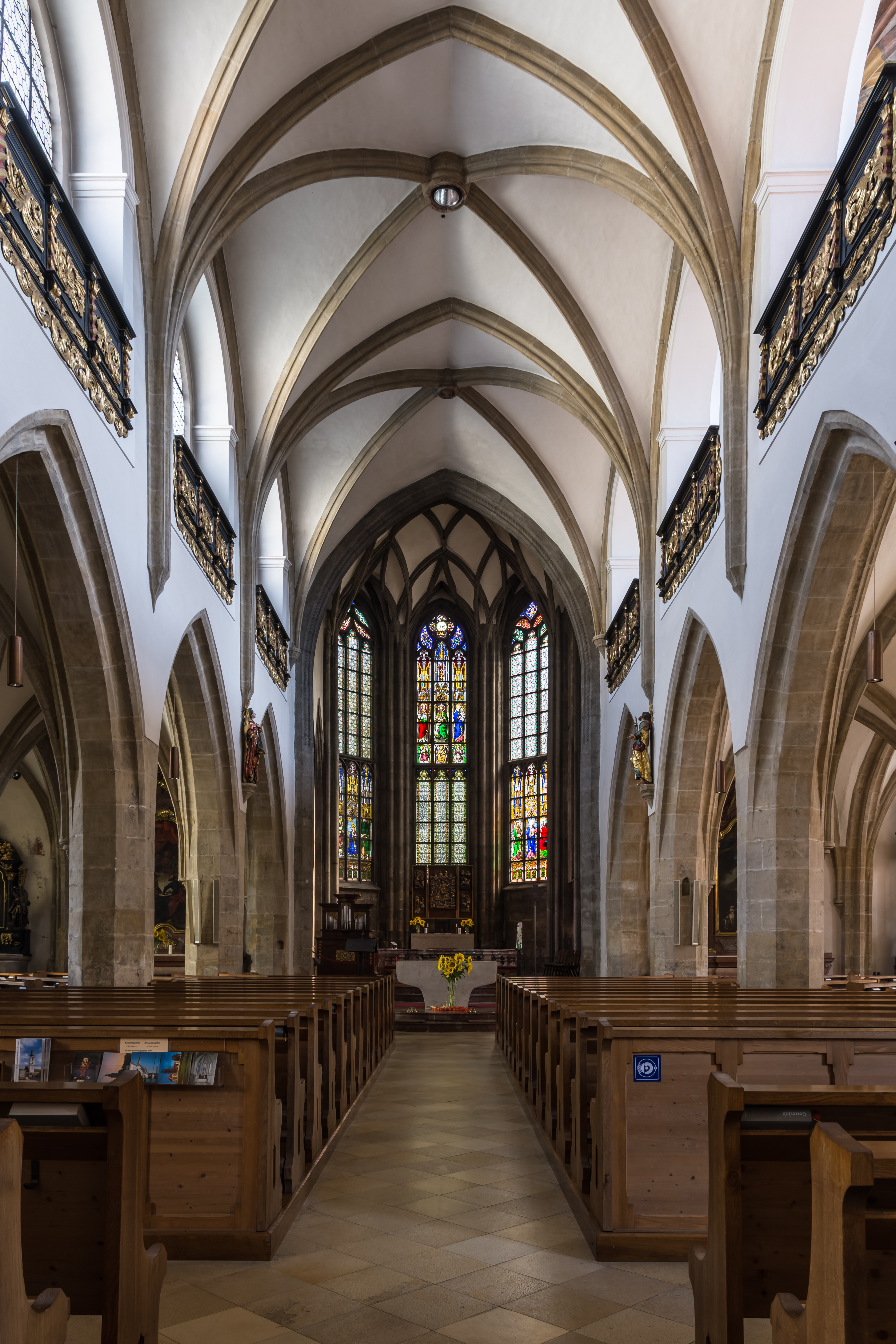 Interior of the parish church Freistadt, Upper Austria